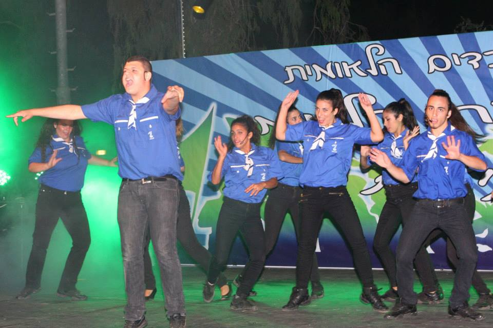 noar leumi lehaka